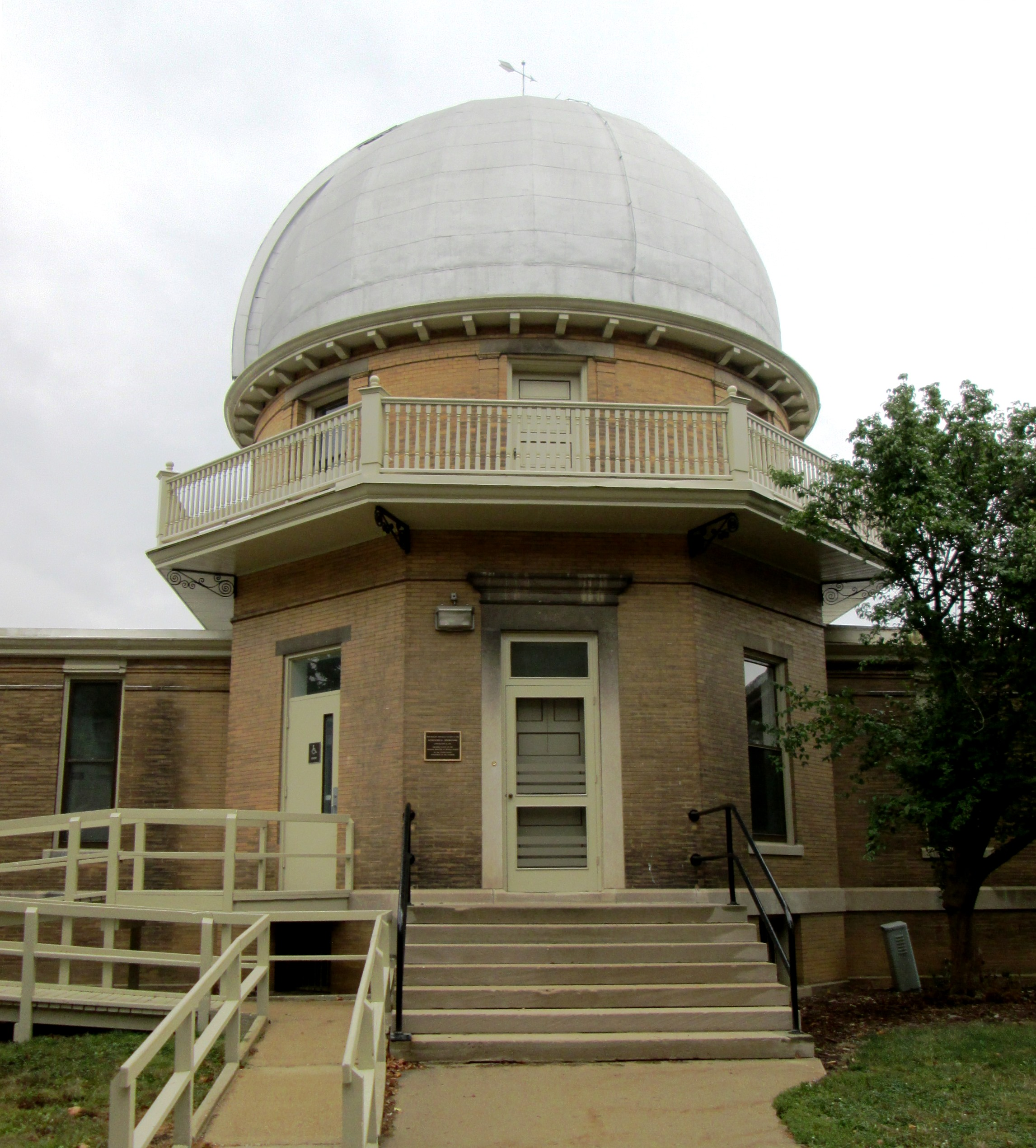 The Astronomical Observatory of the University of Illinois at Urbana-Champaign, located at 901 S. Mathews Avenue in Urbana, Illinois, was built in 1896 and was designed by Charles A. Gunn in the Colonial Revival style. The building was renovated and added to in 1956 and 1966, and the dome was renovated and repainted in 1996. The University's Astronomy Department utilized the building until 1979, when it moved into a larger building, although the 12" Brashear refractor telescope remains in the Observatory; it is used by a student organization.